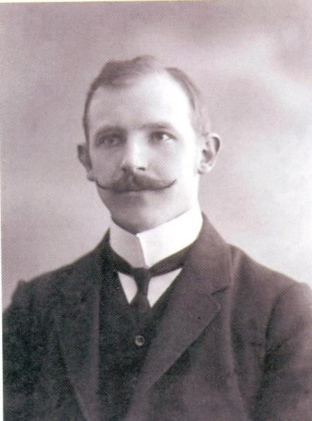 Béla Obál